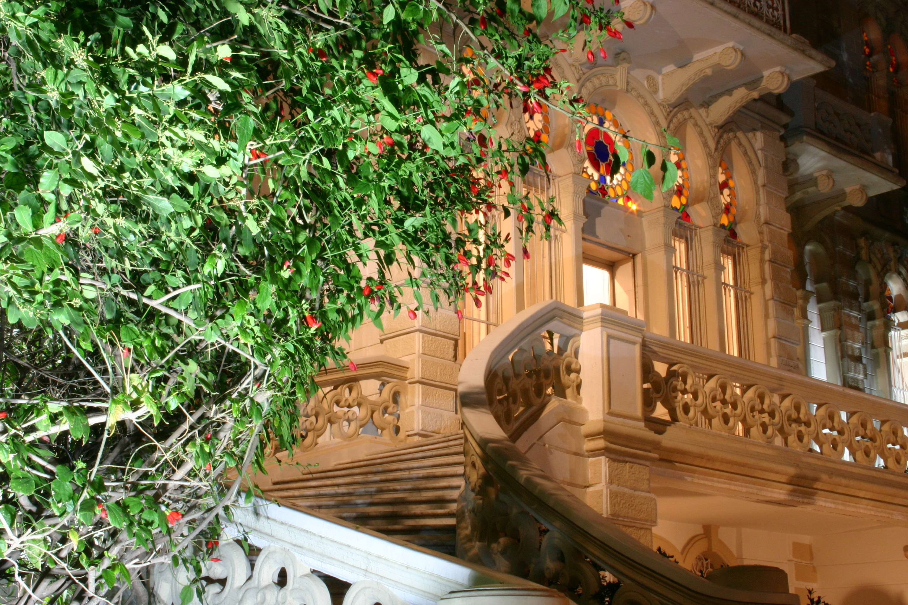 Sursock Museum, Beirut, Lebanon. Photo by Bertil Videt